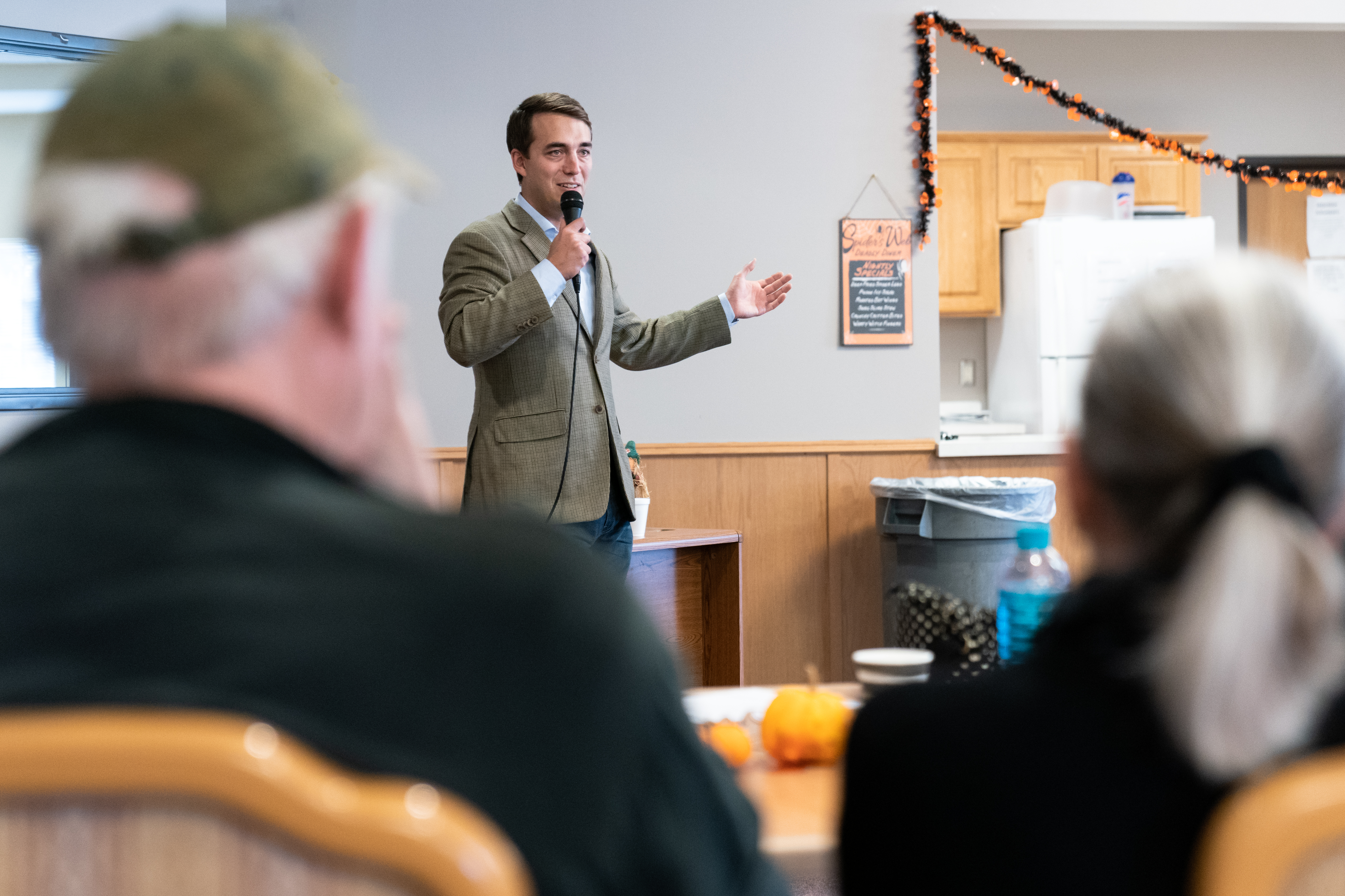 Joe Radinovich at Chisago County Senior Center, North Branch MN